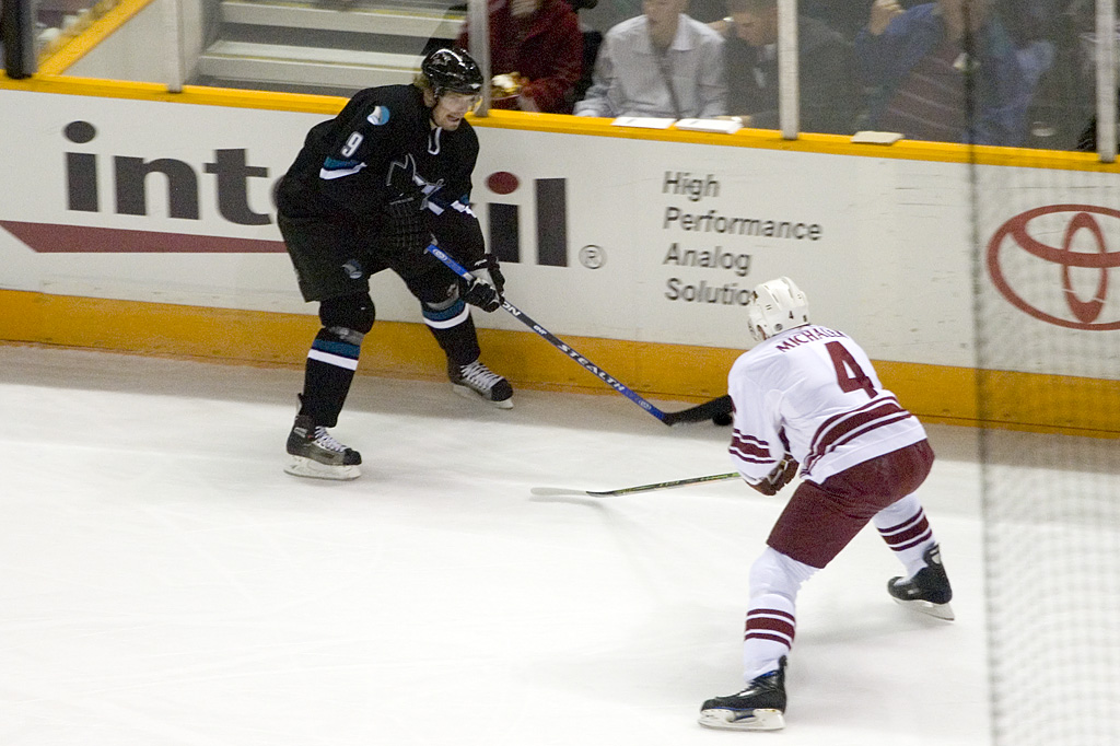 Brothers #9 Milan Michálek and Zbyněk Michálek, in NHL game Phoenix Coyotes vs. San Jose Sharks